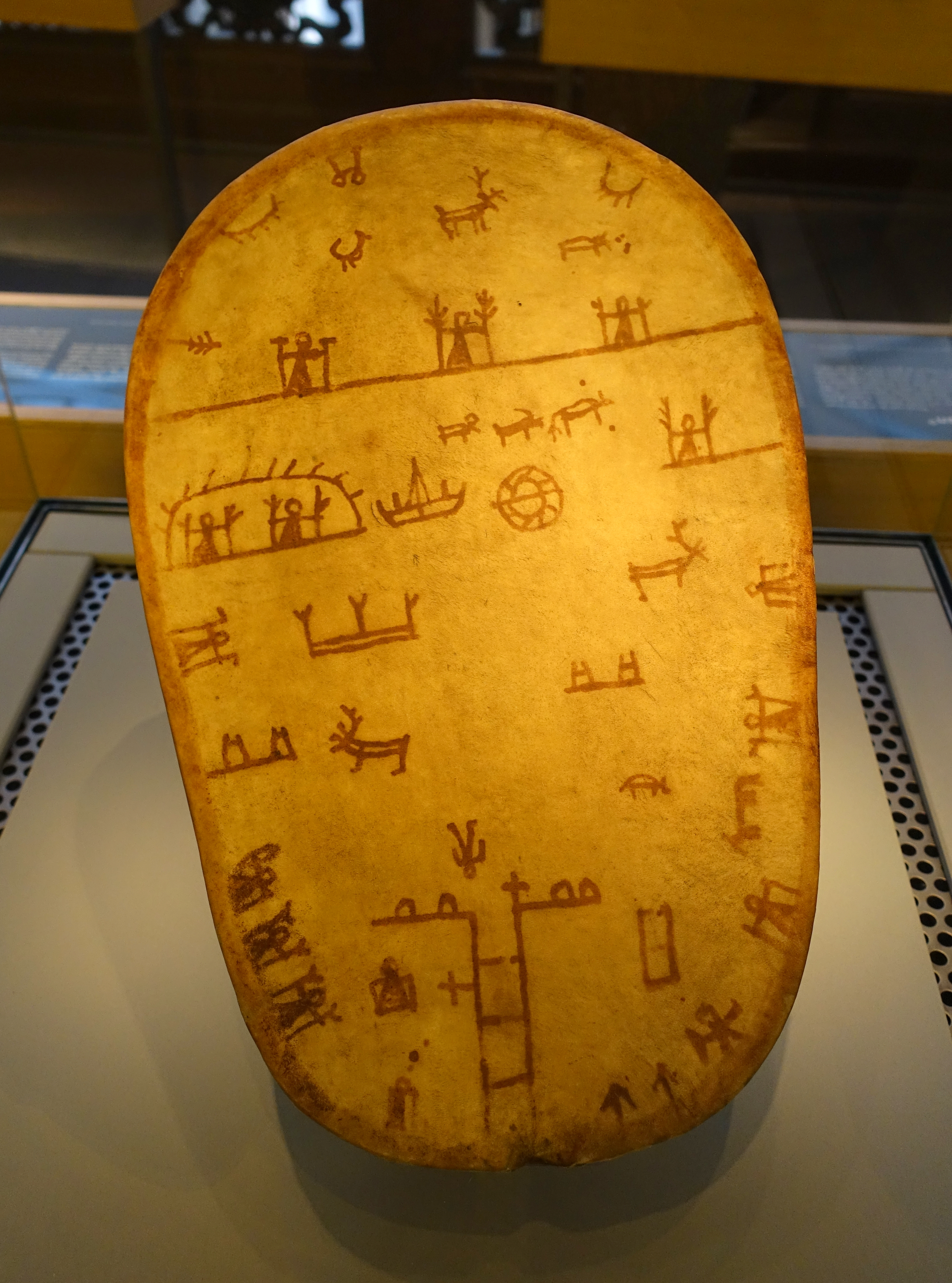 Exhibit in the Nordiska museet - Stockholm, Sweden.